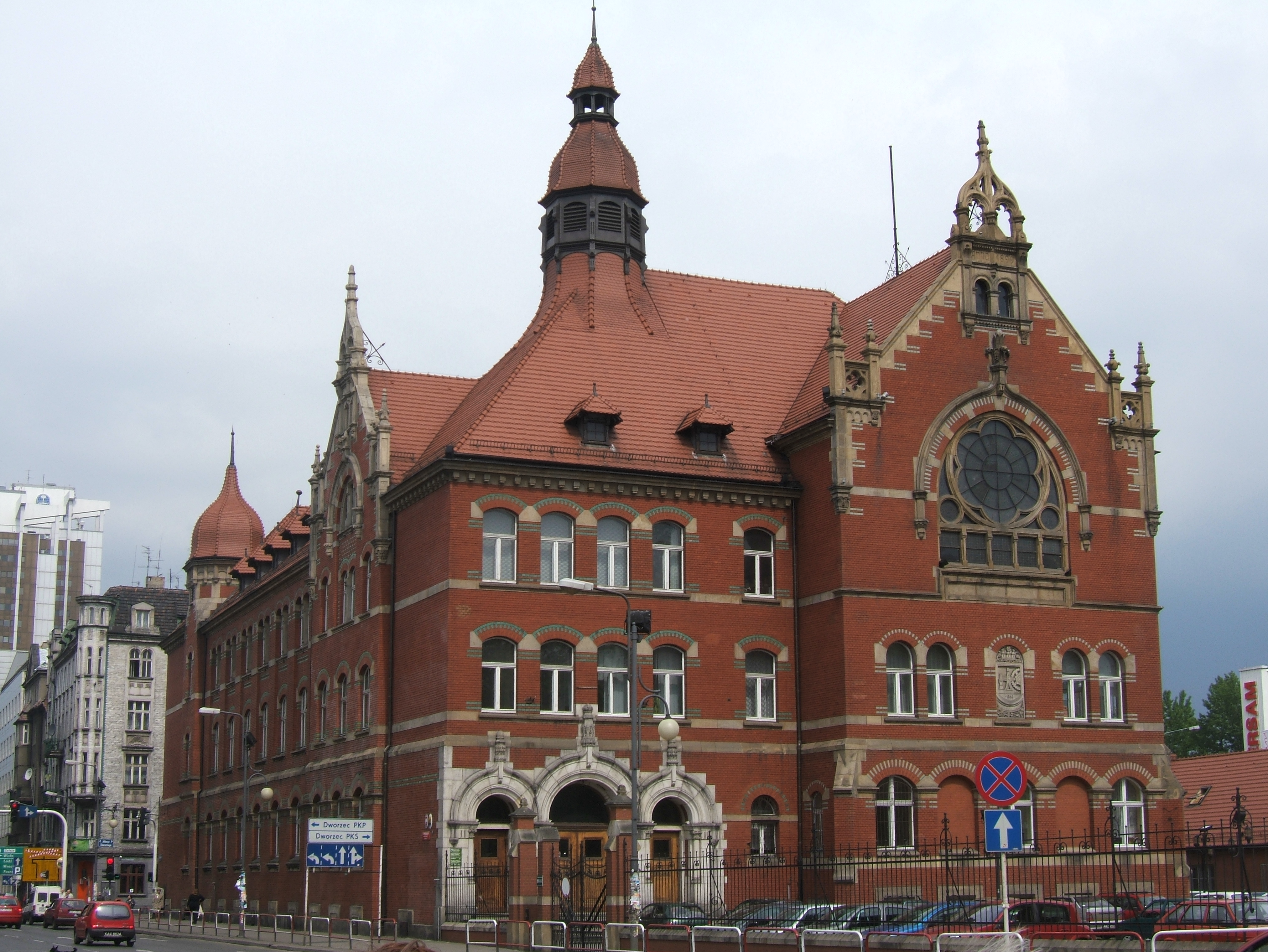 The Gymnasium in Katowice is since his erection a school at Mickiewicza Street and was built to 1900 in the stile of Neorenaissance with elements of Neogothic.